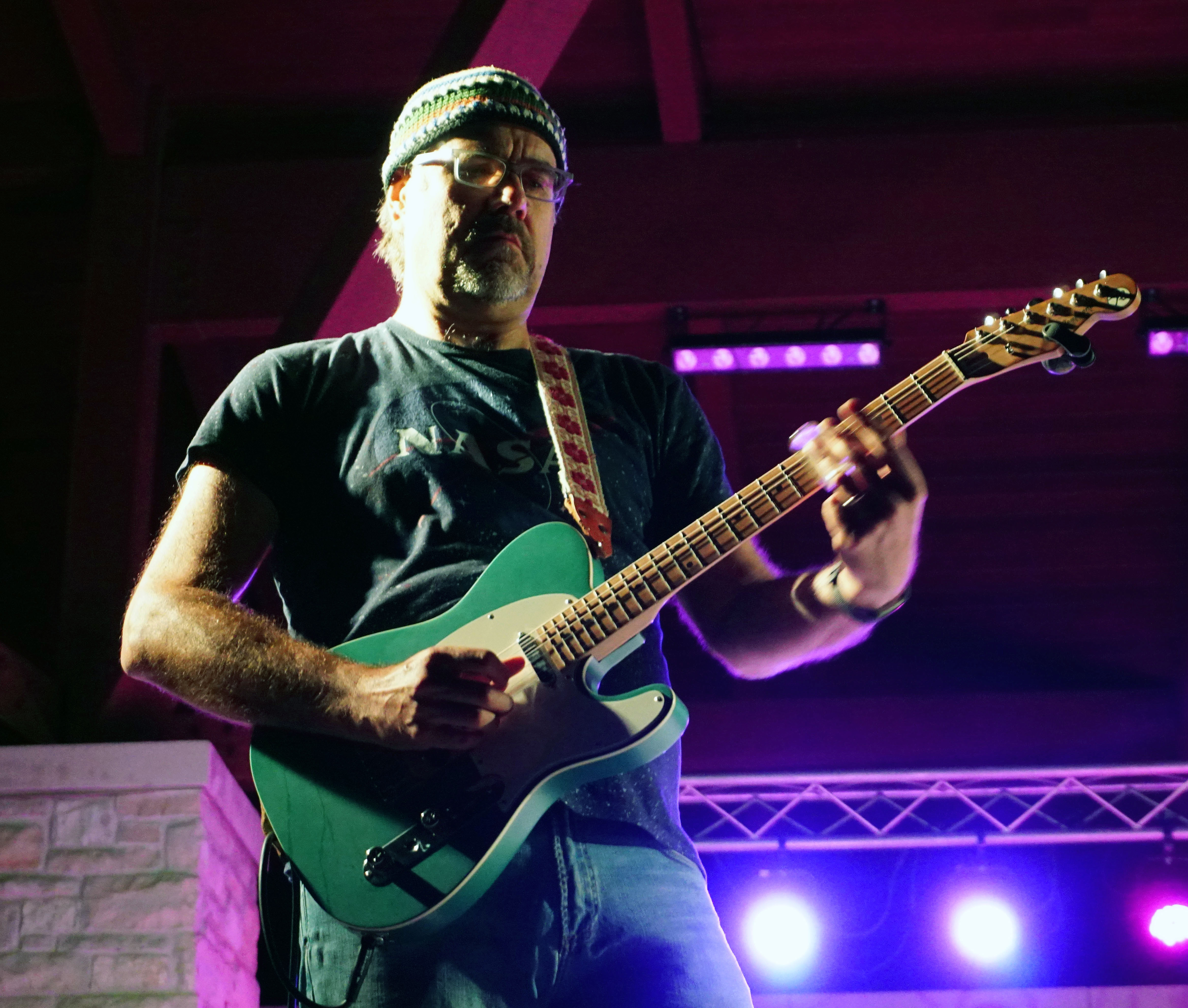 Greg Koch playing guitar on September 8, 2018 at Tosa Fest.